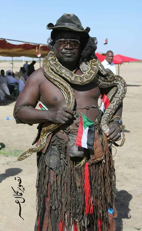 مي ينكن وٌقا